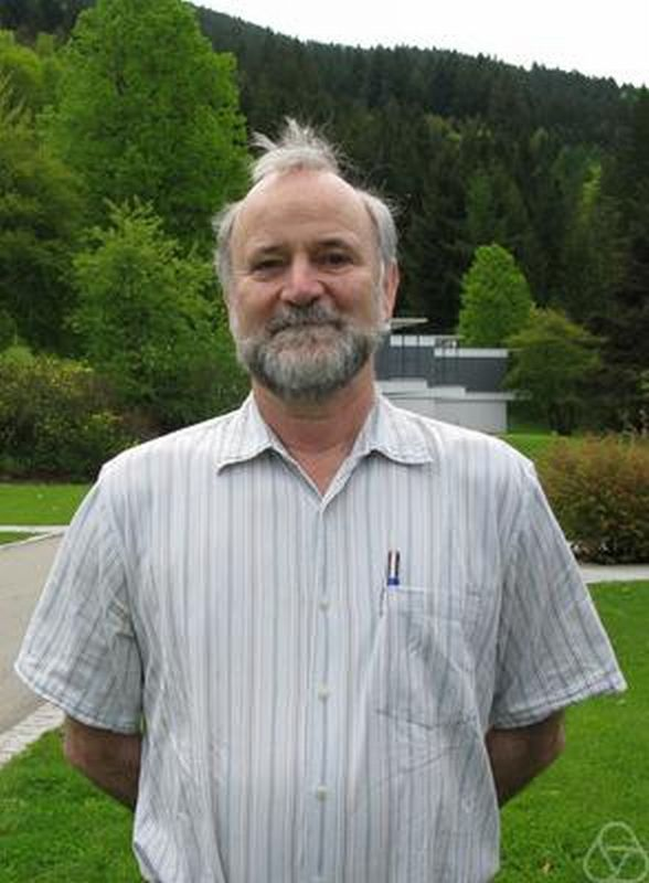 J. Tobias Stafford, Oberwolfach 2010